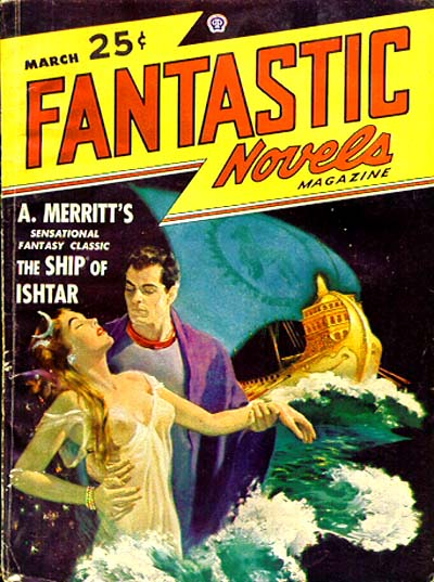 Fantastic Novels, March 1948